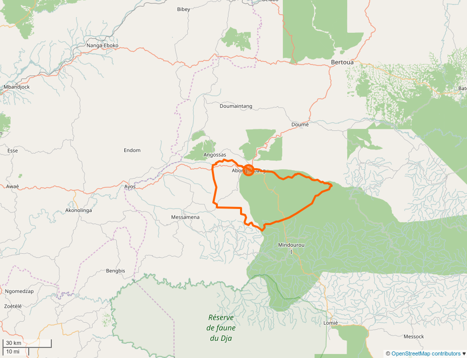 City boundaries of Abong-Mbang, Cameroon. This map may be incomplete, and may contain errors. Don't rely solely on it for navigation.